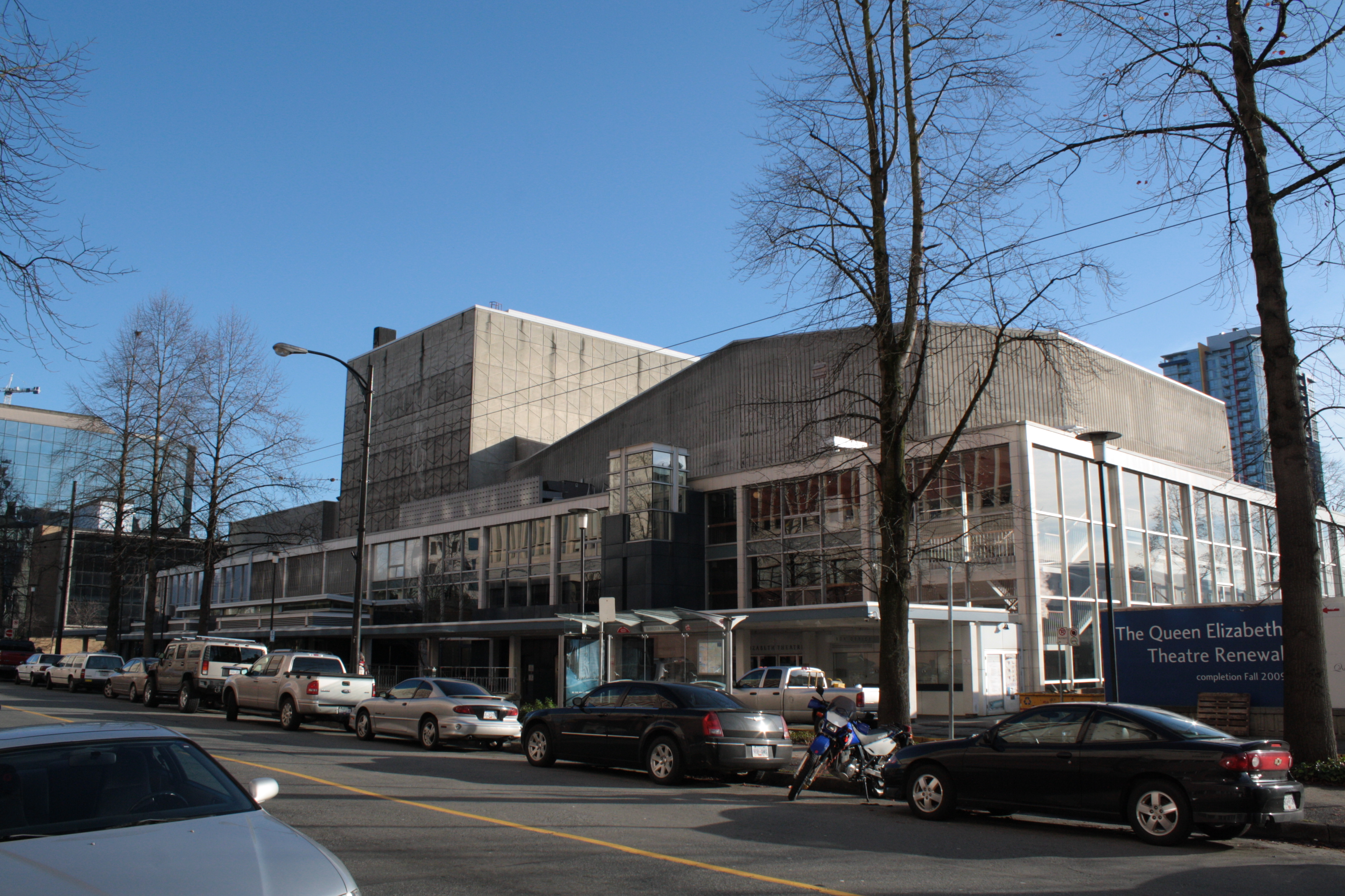 Queen Elizabeth Theater, Vancouver, BC